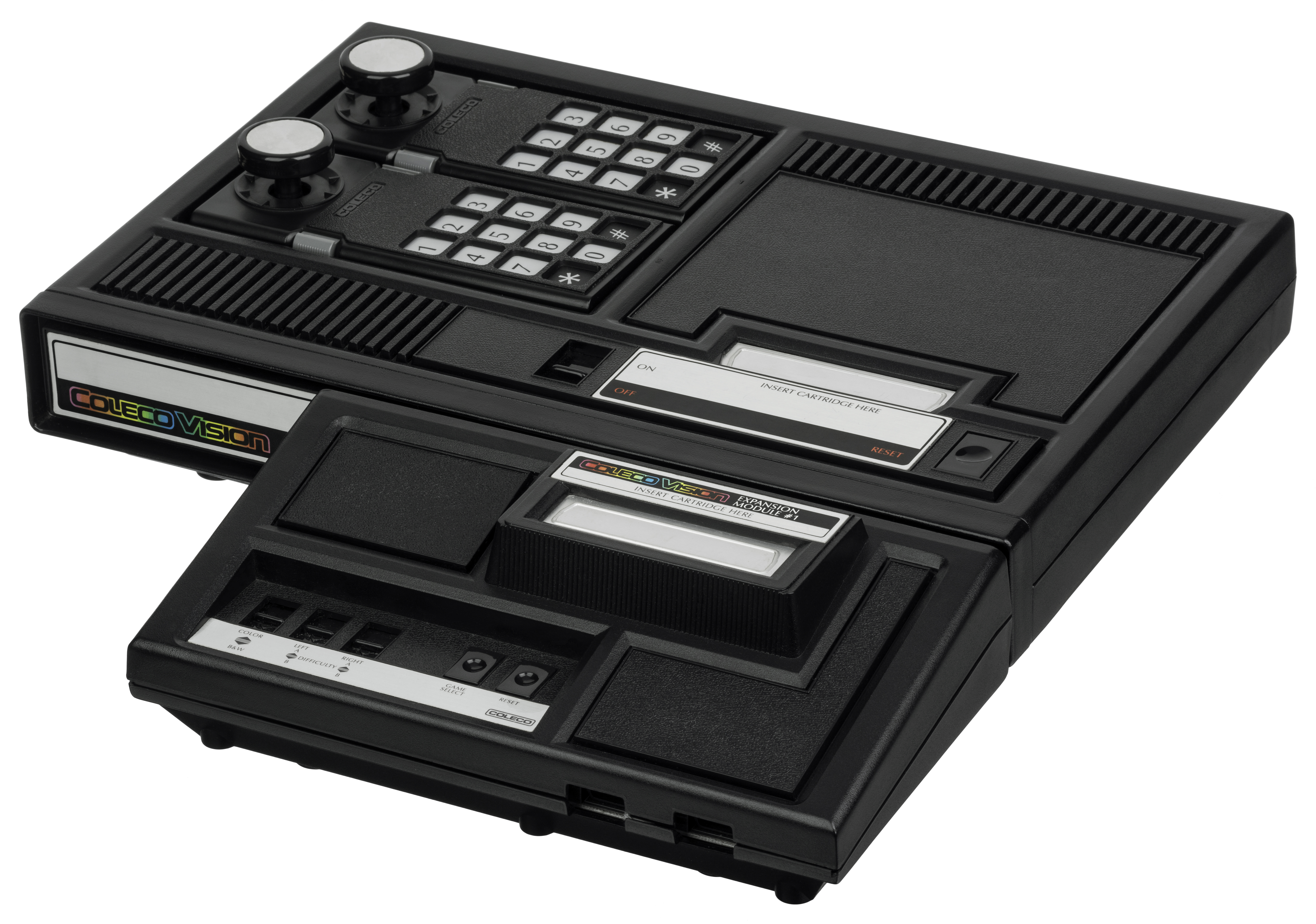 The Expansion Module #1 add-on for the ColecoVision, shown attached. This add-on allowed for users to play Atari 2600 games through their ColecoVision. It featured all of the hardware, switches and controller ports of the Atari 2600. The ColecoVision console, a second generation gaming console released in 1982 by Coleco Industries. The ColecoVision faced off against the older Atari 2600, and enjoyed moderate success when released due to its higher quality arcade ports. By 1983, however, the video game industry crash greatly hurt all gaming console manufacturers, leading to Coleco Industries bowing out of the gaming industry by 1985.